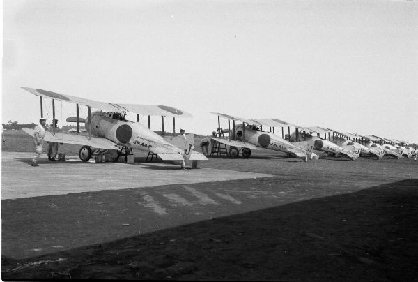 Japanese Navy's Gloster Sparrowhawk in Kasumigaura airfield.